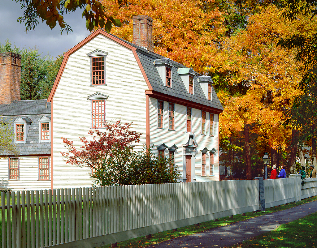 Dwight House in Deerfield, Massachusetts.